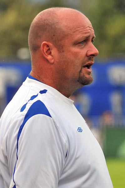 Photo of soccer player and coach, Colin Clarke.